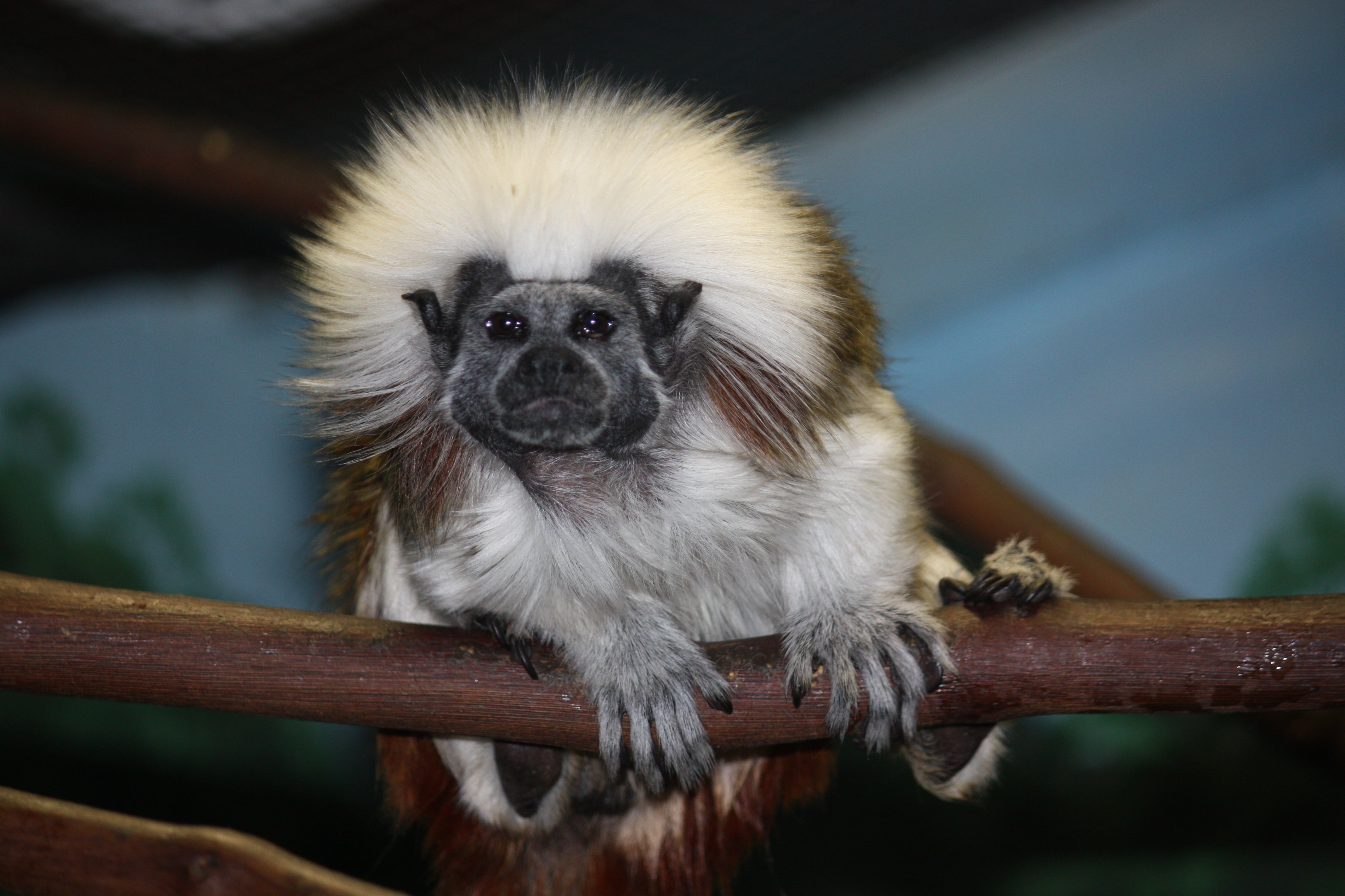 Cottontop Tamarin at the Louisville Zoo